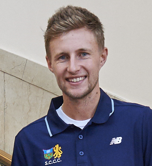 Joe Root visits University of Wolverhampton